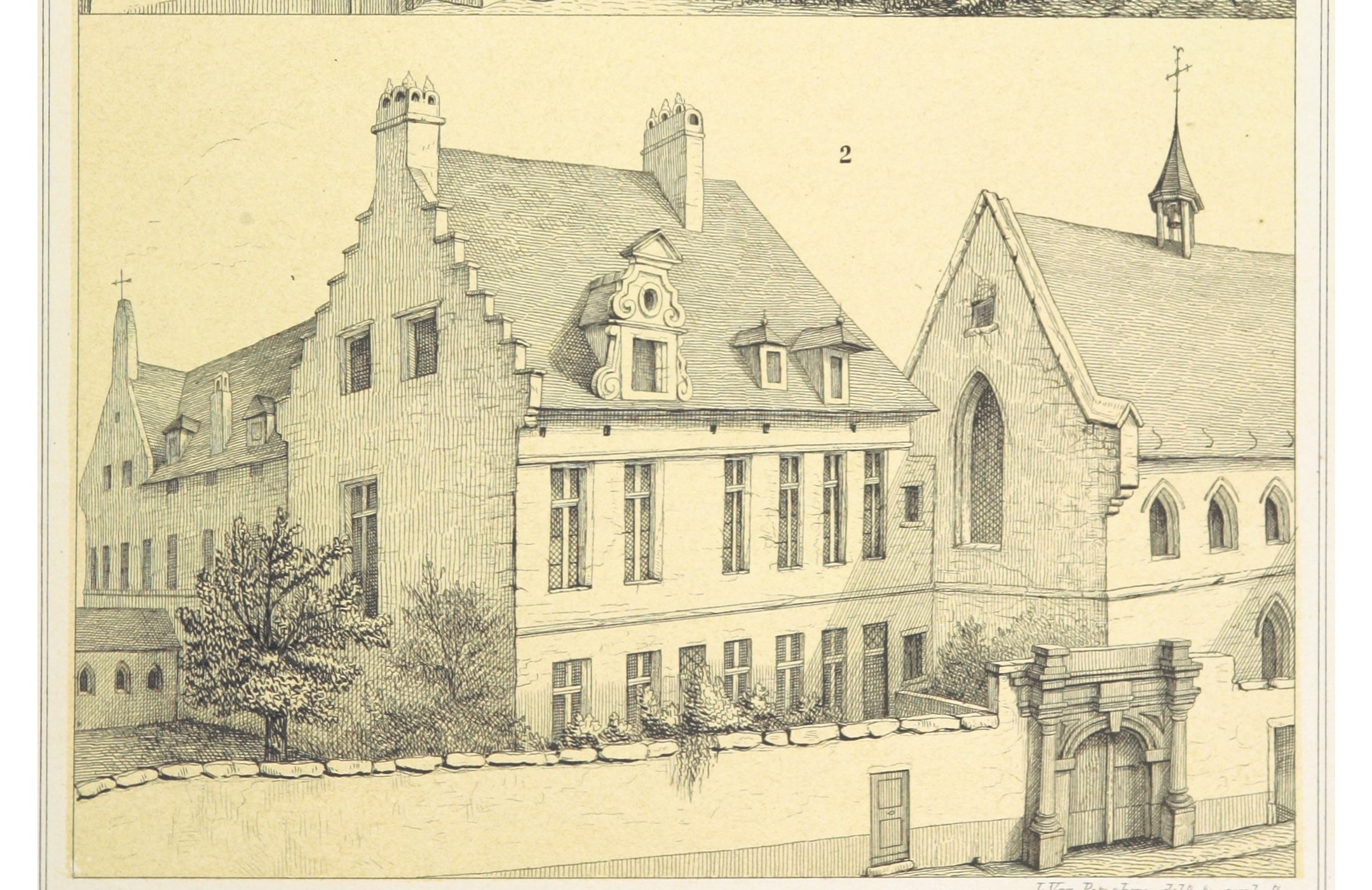 Former Priory of Saint Ursula and the 11000 Virgins in the Belgian city of Leuven; drawing by Edward Van Even 1860